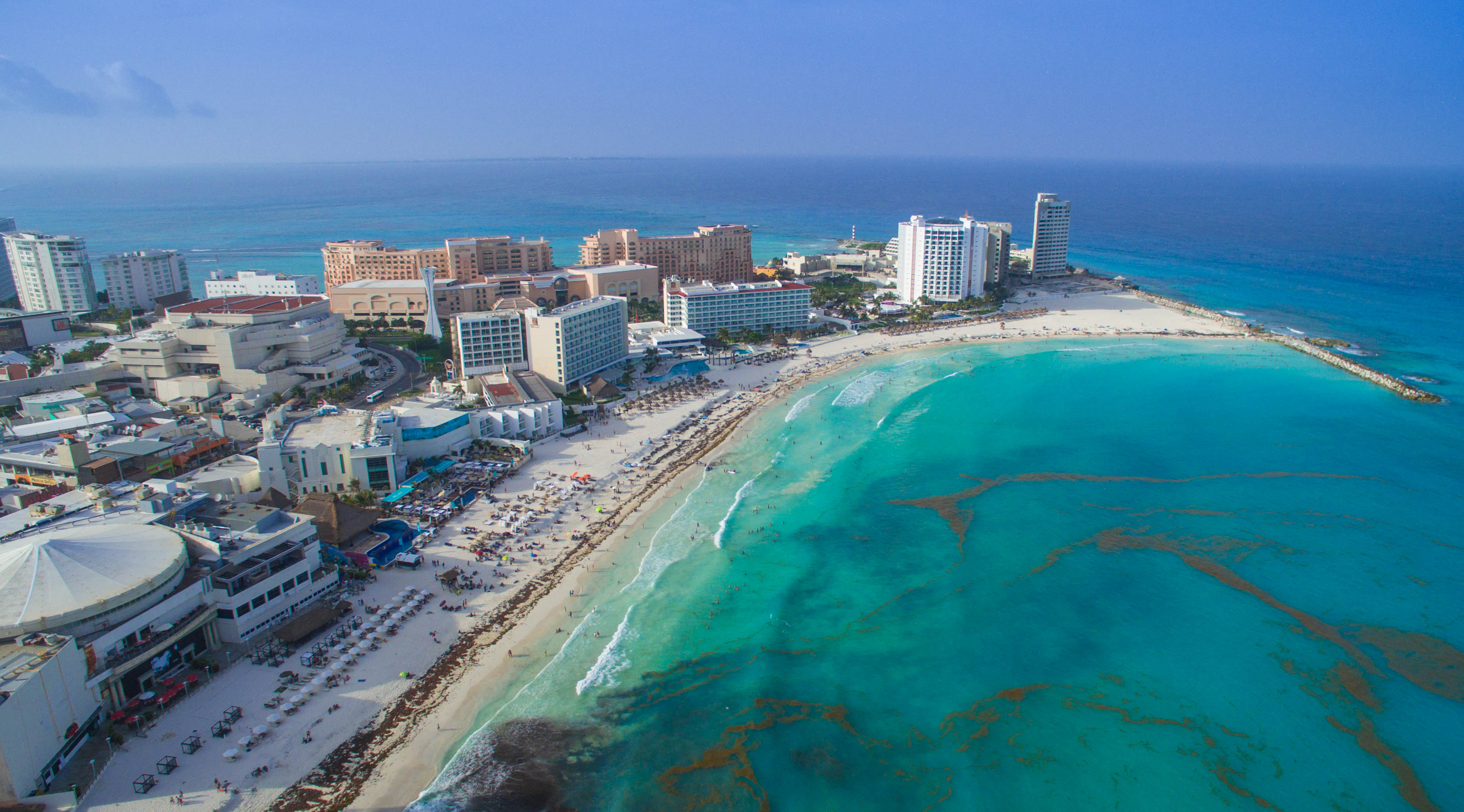 Aerial footage of Cancun. Luftbildaufnahmen von Cancun.